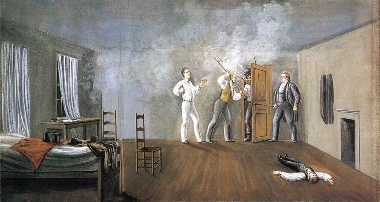 "Interior of Carthage Jail" by C.C.A. Christensen (The caption below that read "The blood of the martyrs is the seed of the church" has been cropped)